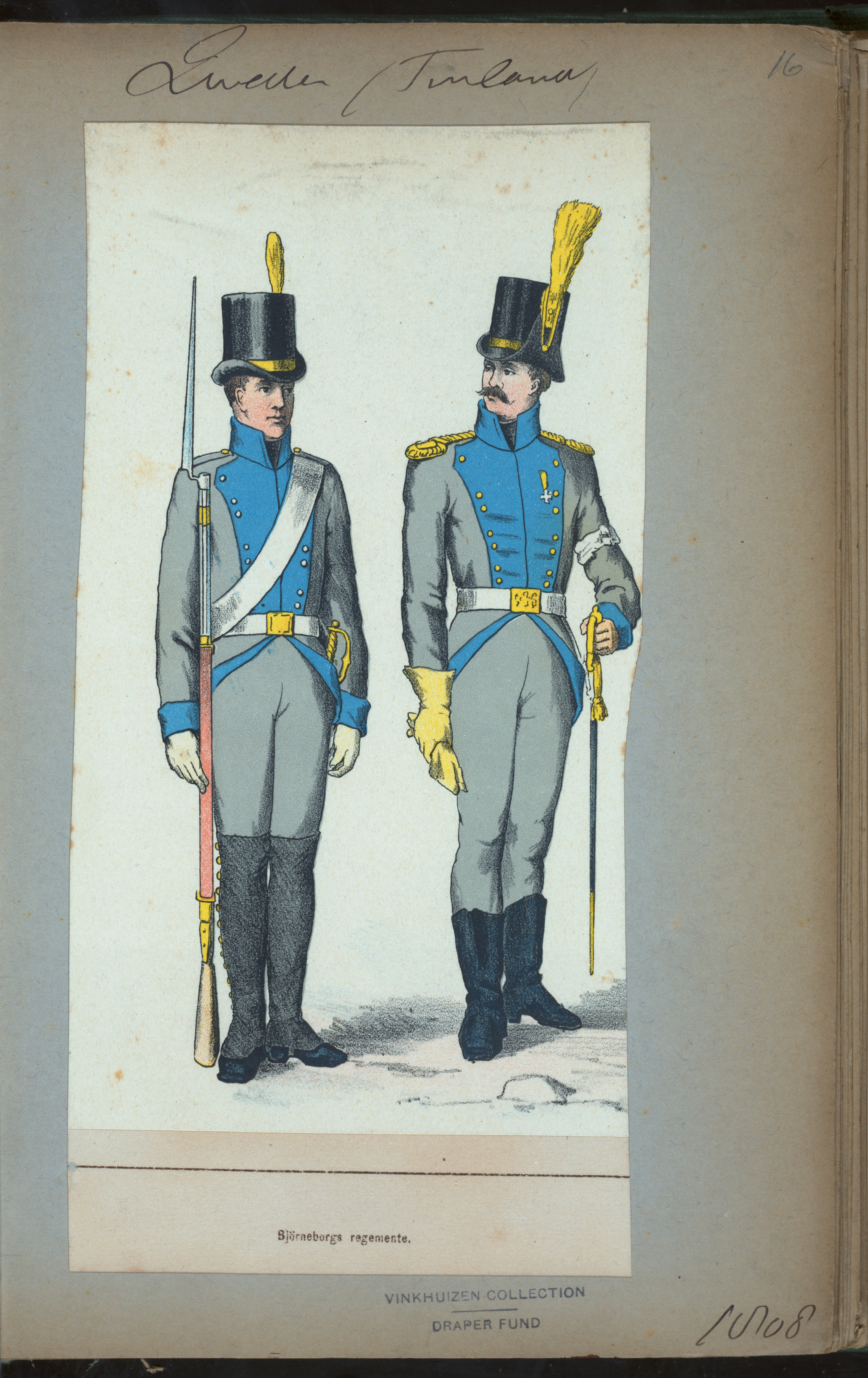 Norway and Sweden, 1808.